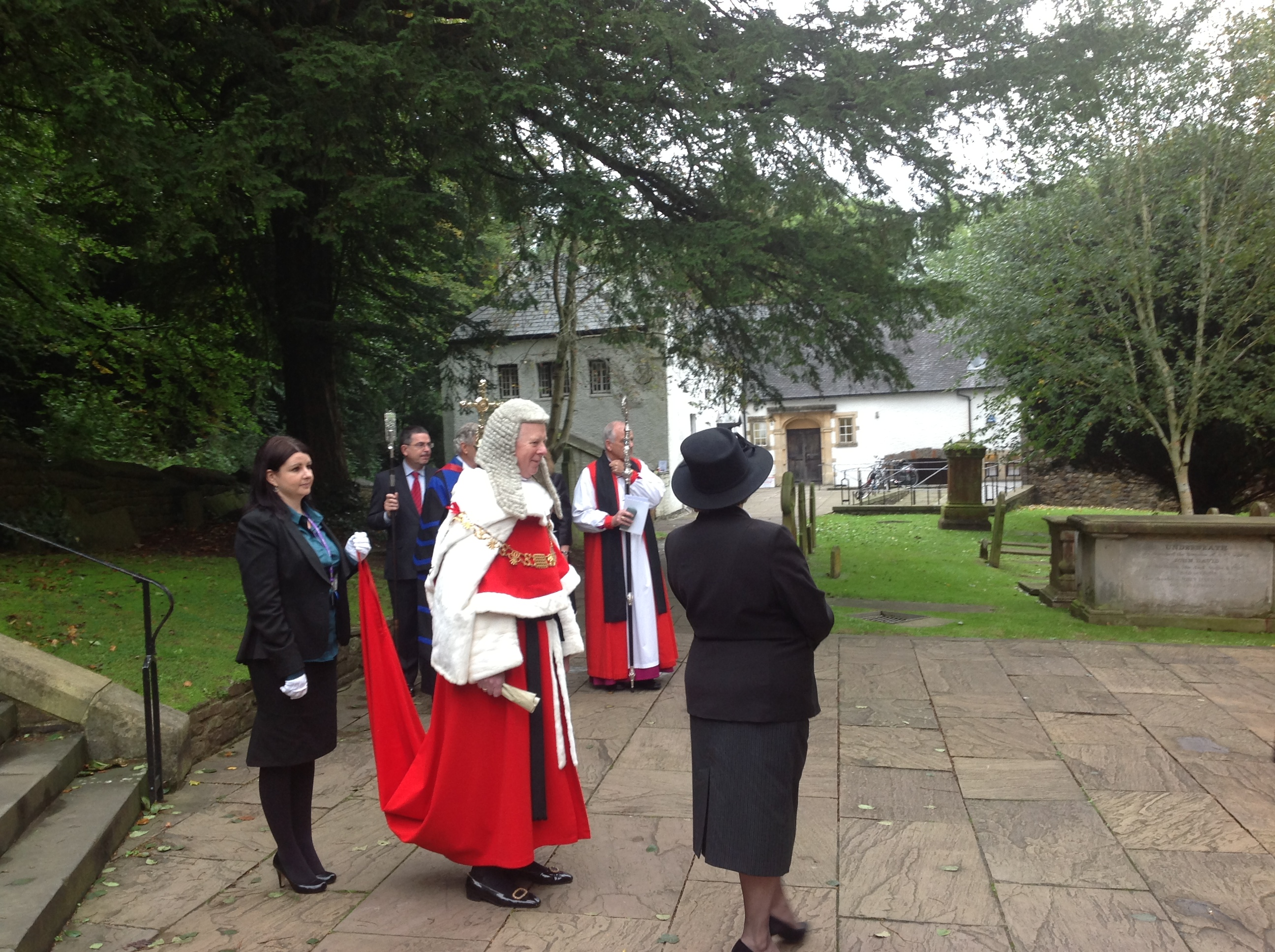 The Legal Service for Wales at Llandaff Cathedral. 13 October 2013